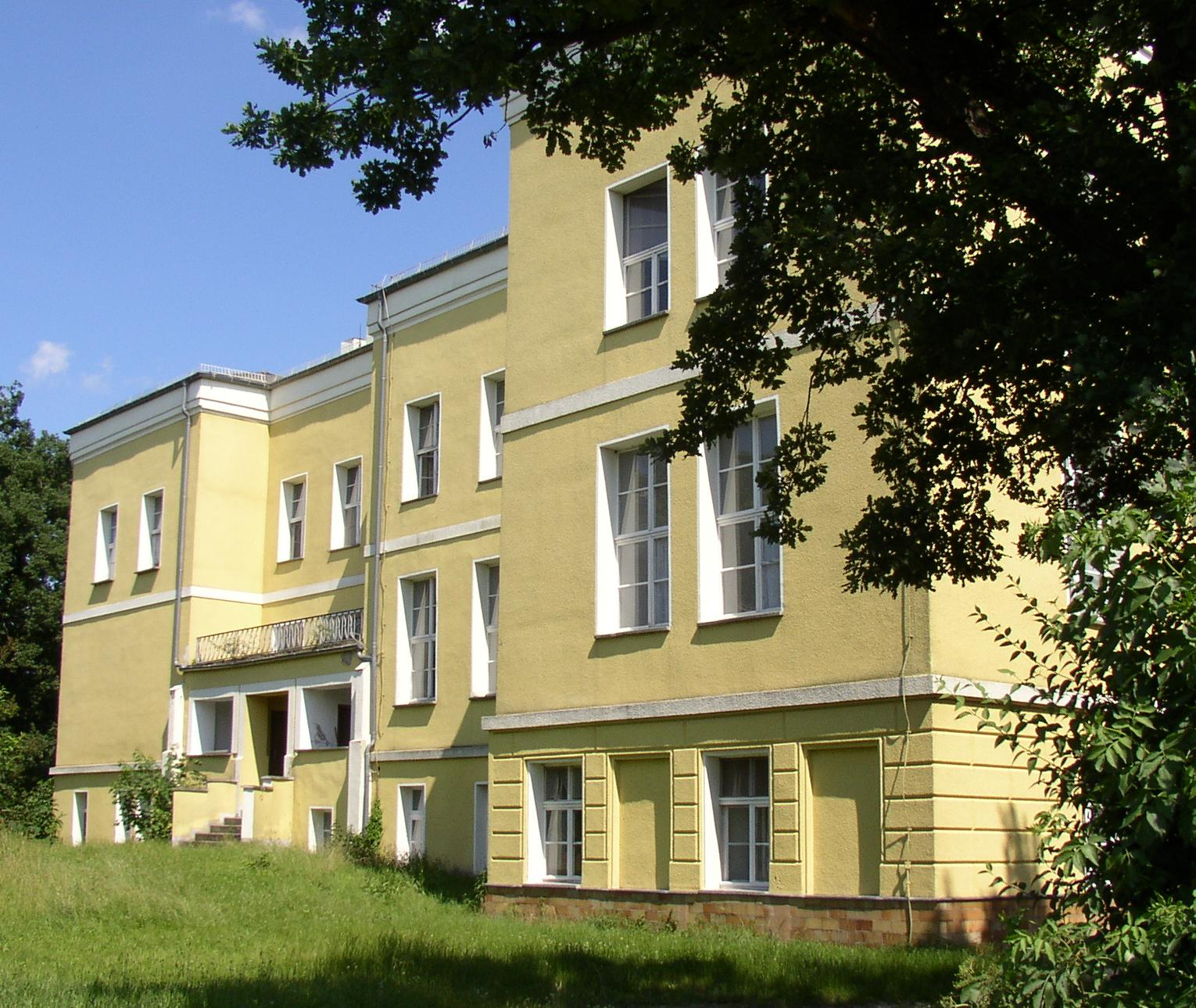 Palace in Paulinenaue-Selbelang in Brandenburg, Germany